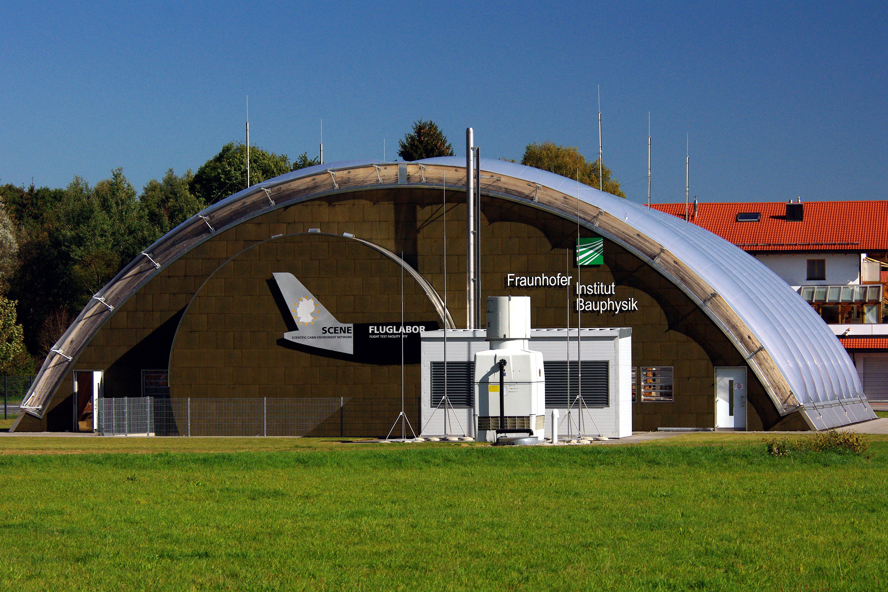 The flightlab at Oberlaindern, east of Holzkirchen/Upper Bavaria